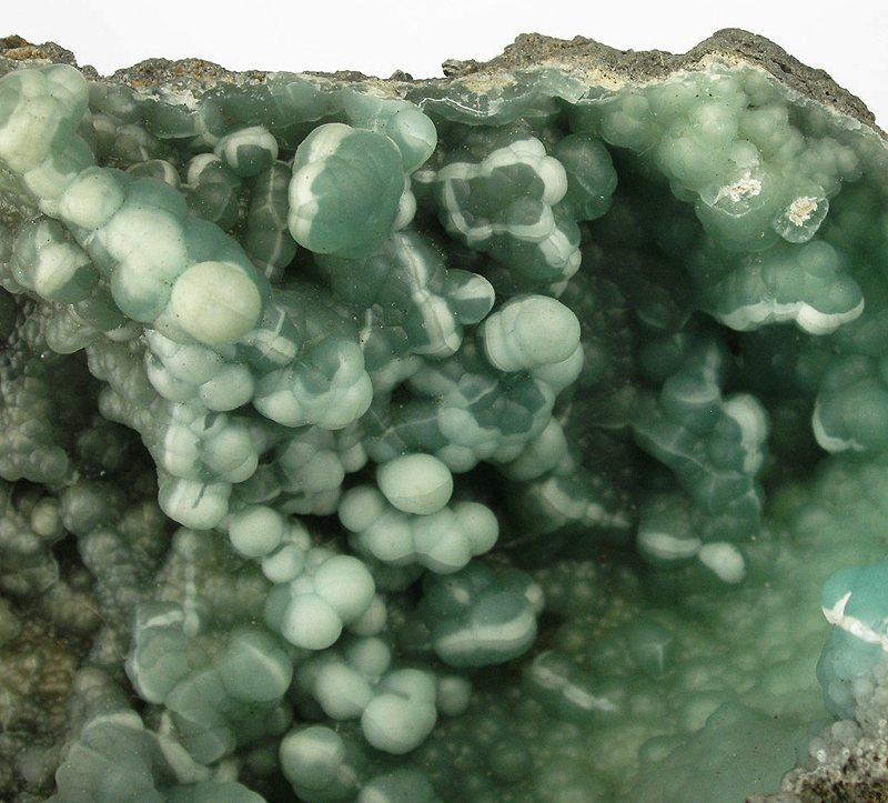 Doyleite, Gibbsite Locality: Xianghualing Mine (Hsianghualing Mine), Xianghualing Sn-polymetallic ore field, Linwu County, Chenzhou Prefecture, Hunan Province, China (Locality at ) Size: small cabinet, 9.6 x 7.2 x 5.8 cm Gibbsite with Doyleite Nestled in a vug are translucent, pastel blue-green botryoidal aggregates of gibbsite, to.8 cm in length, with interesting white overgrowths of the rare species doyleite. An aesthetic and complete pocket as found.